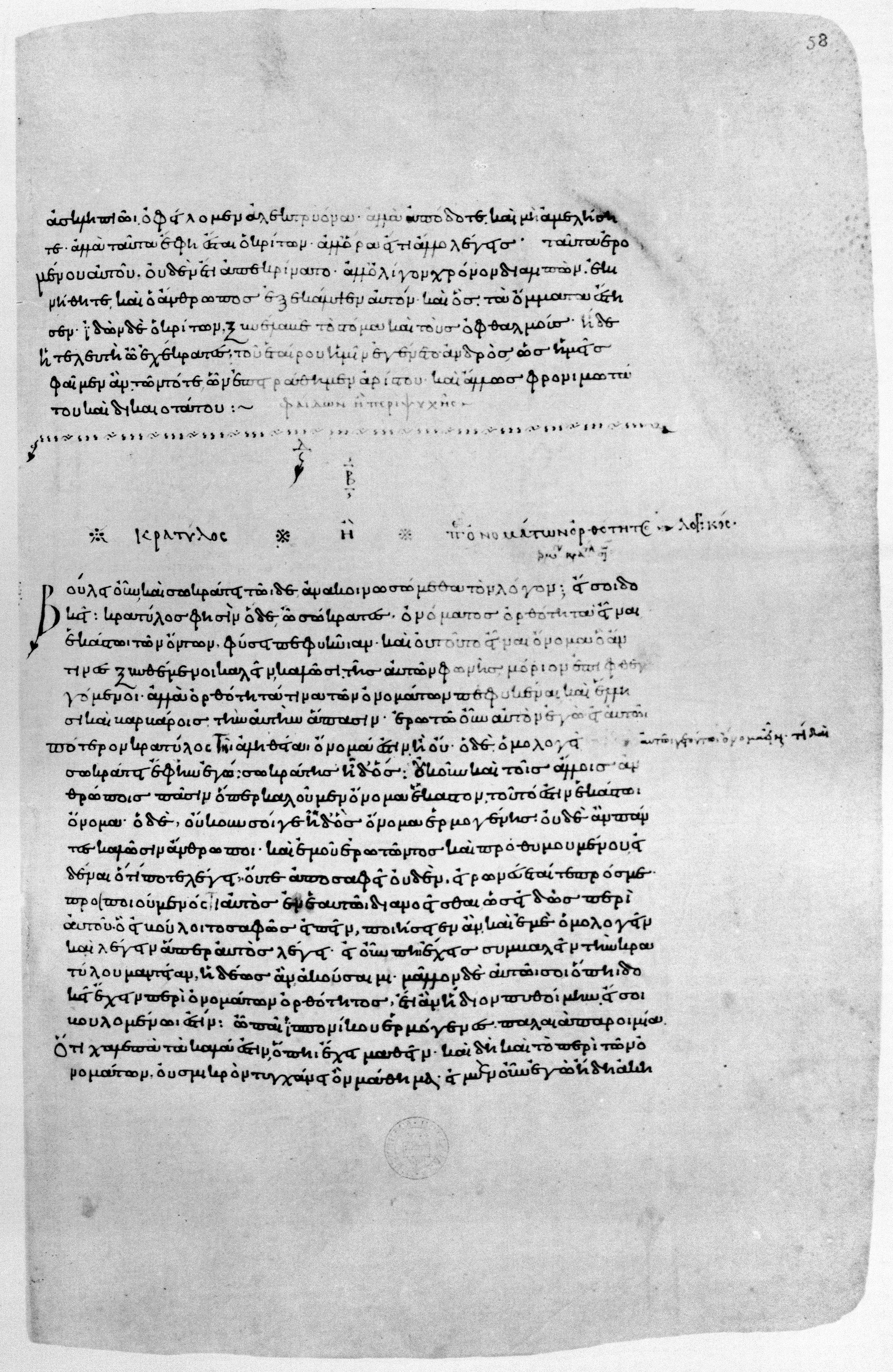 Page of the Codex Oxoniensis Clarkianus 39 (Clarke Plato). Dialogue Kratylos.